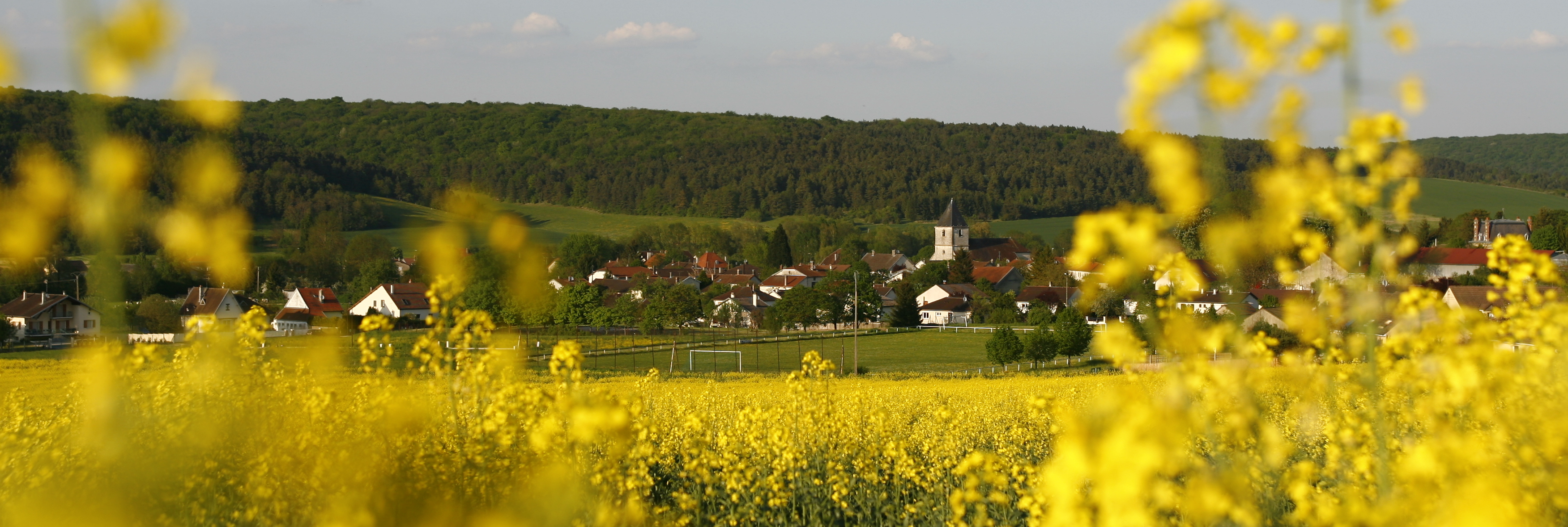 Panoramic landscape from Longchamp-sur-Aujon, 05/2008 (Photo ©. B. THIEBAULT)